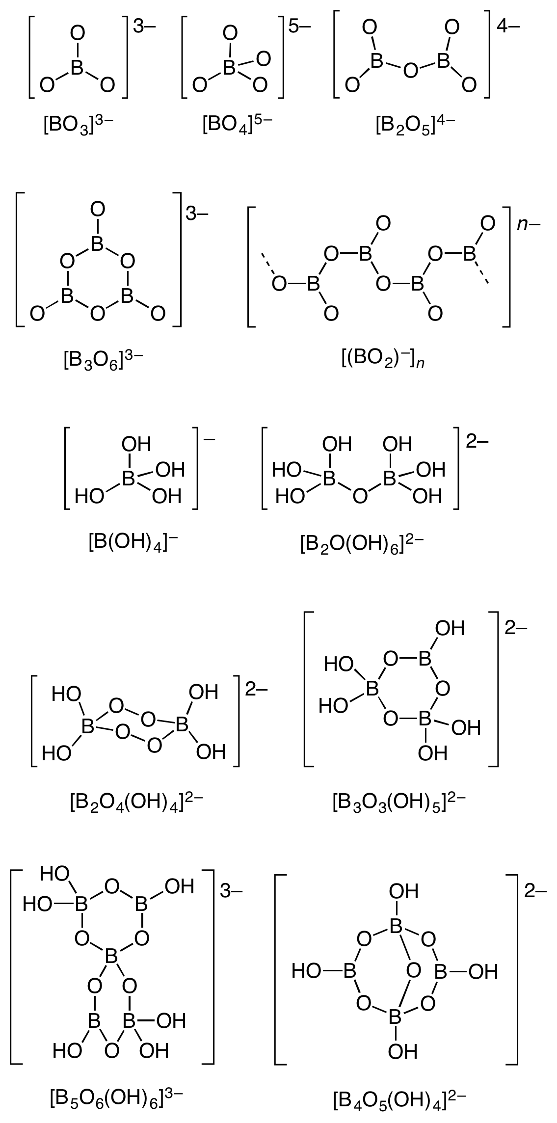 Structure of selected borate anions